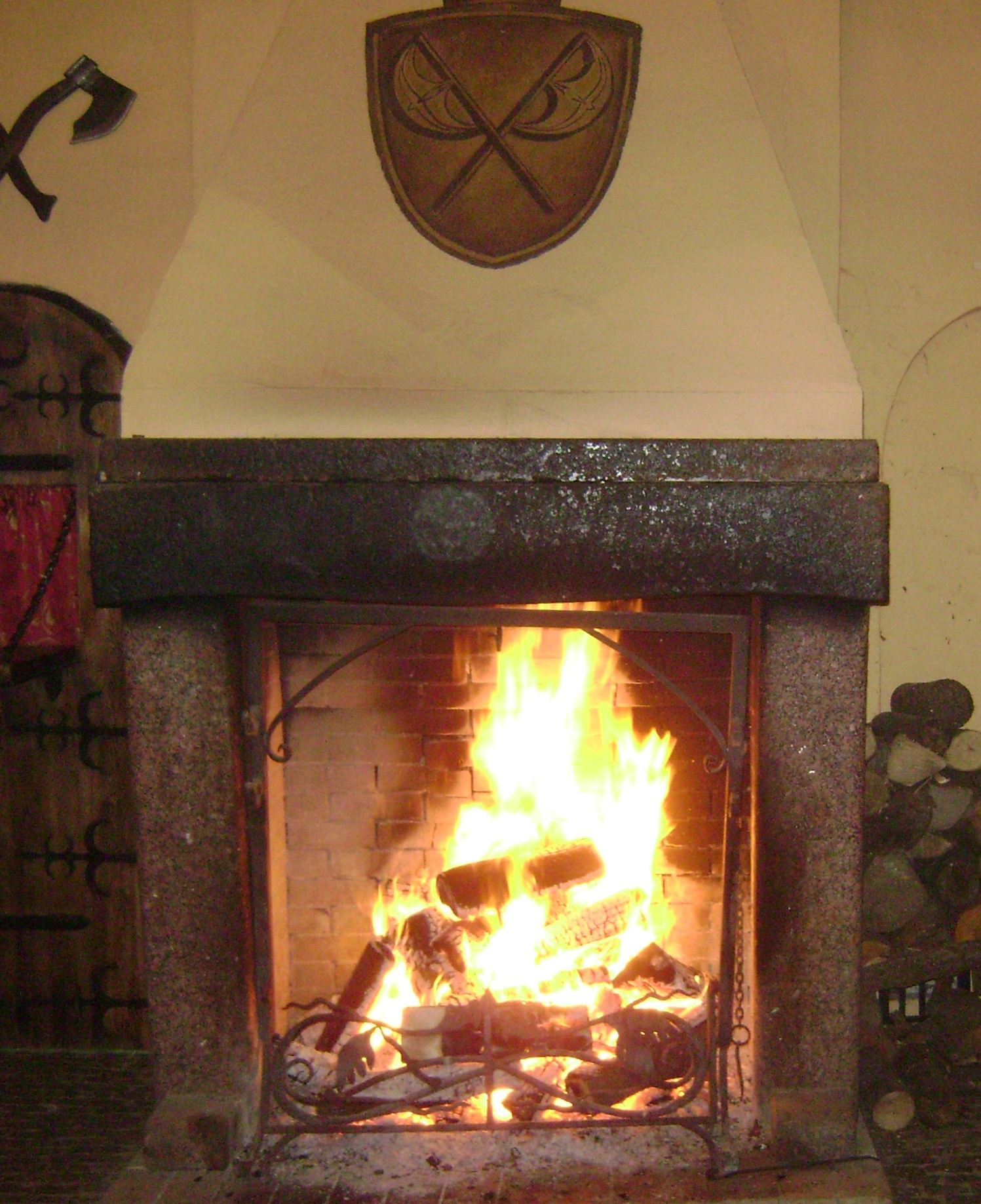 Poland. Gmina Tykocin. Kiermusy